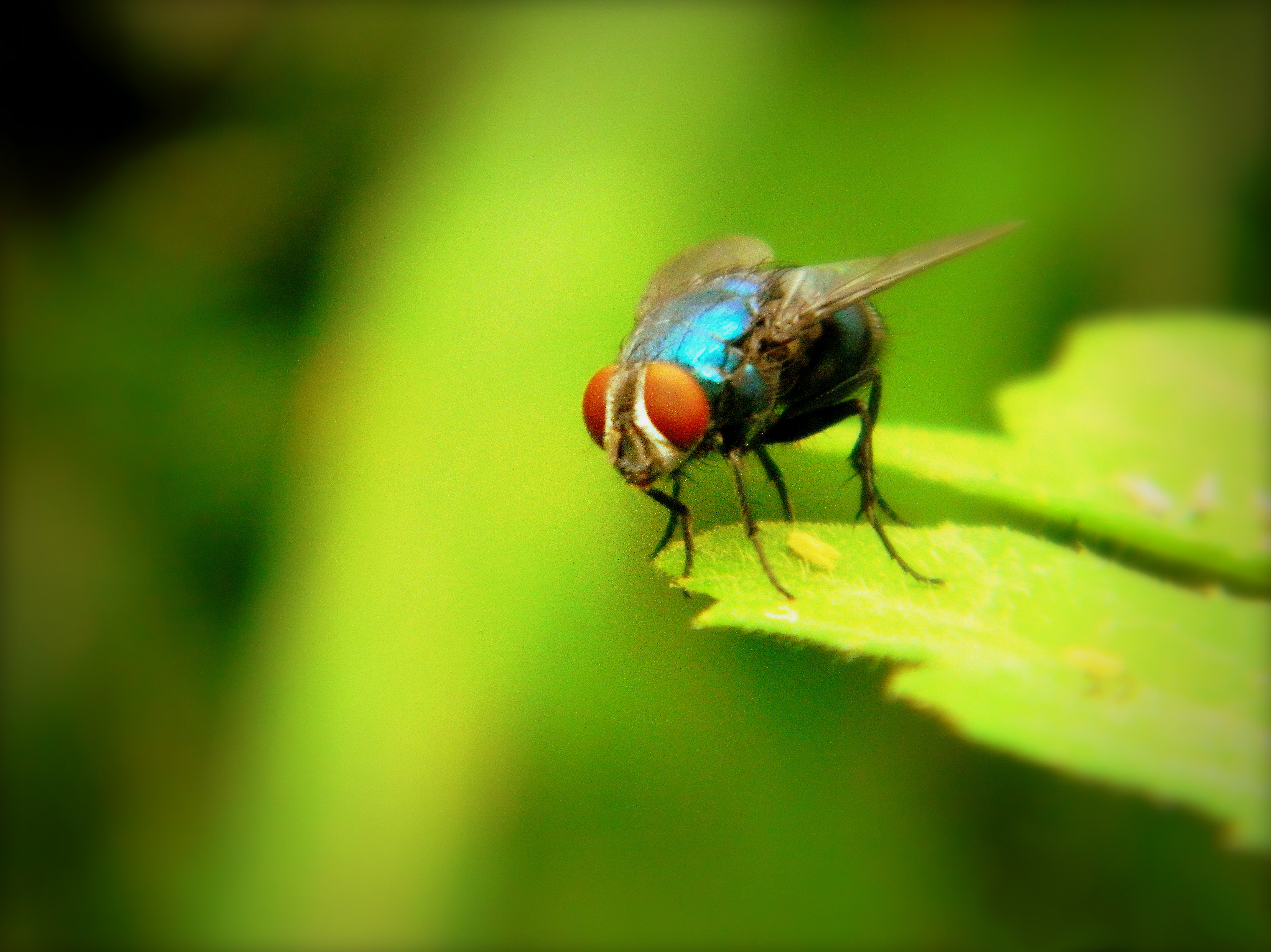 Green Bottle Fly